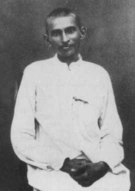 Gandhi in South-Africa, with "Satyagrahi" clothes made after prisoners' clothes, 1913 or 1914.